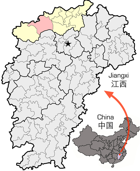 Map showing location of Wuning, Jiujiang in Jiangxi Province China